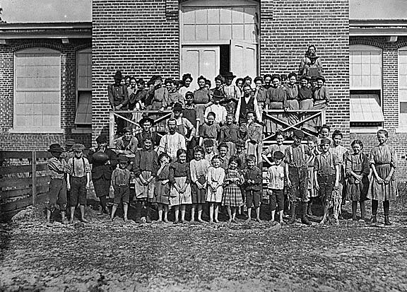 Original description: Workers in the Tifton Cotton Mills. All these children were working or helping. 125 workers in all. Some of the smallest boys and girls have been there one year or more. Tifton, Ga., 01/22/1909. Photographed by Lewis Hine.